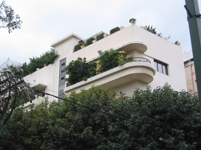 House in Ben Gurion/Emile Zola Street